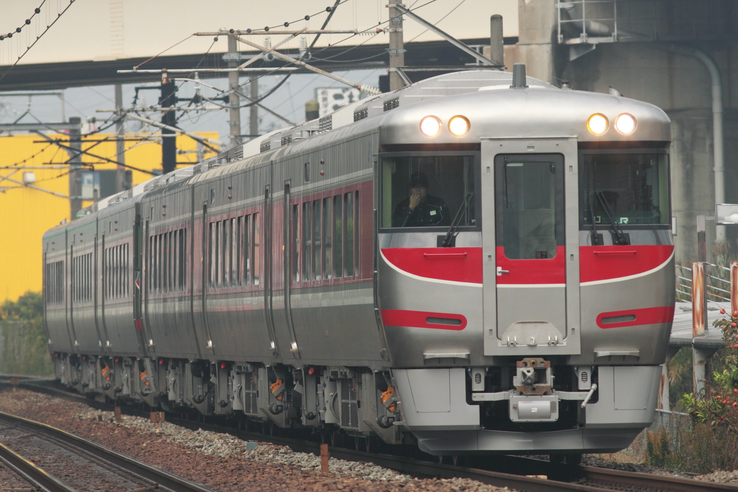 JR West KiHa 189 series DMU formation on the Hamakaze 2 service between Sone and Hoden stations on the Kobe Line)